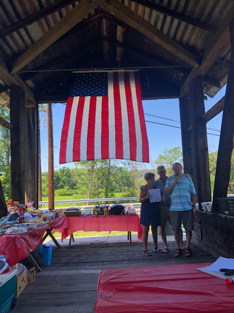 Cuppett's Covered Bridge Celebrating it's 95th Cuppett Family Reunion.